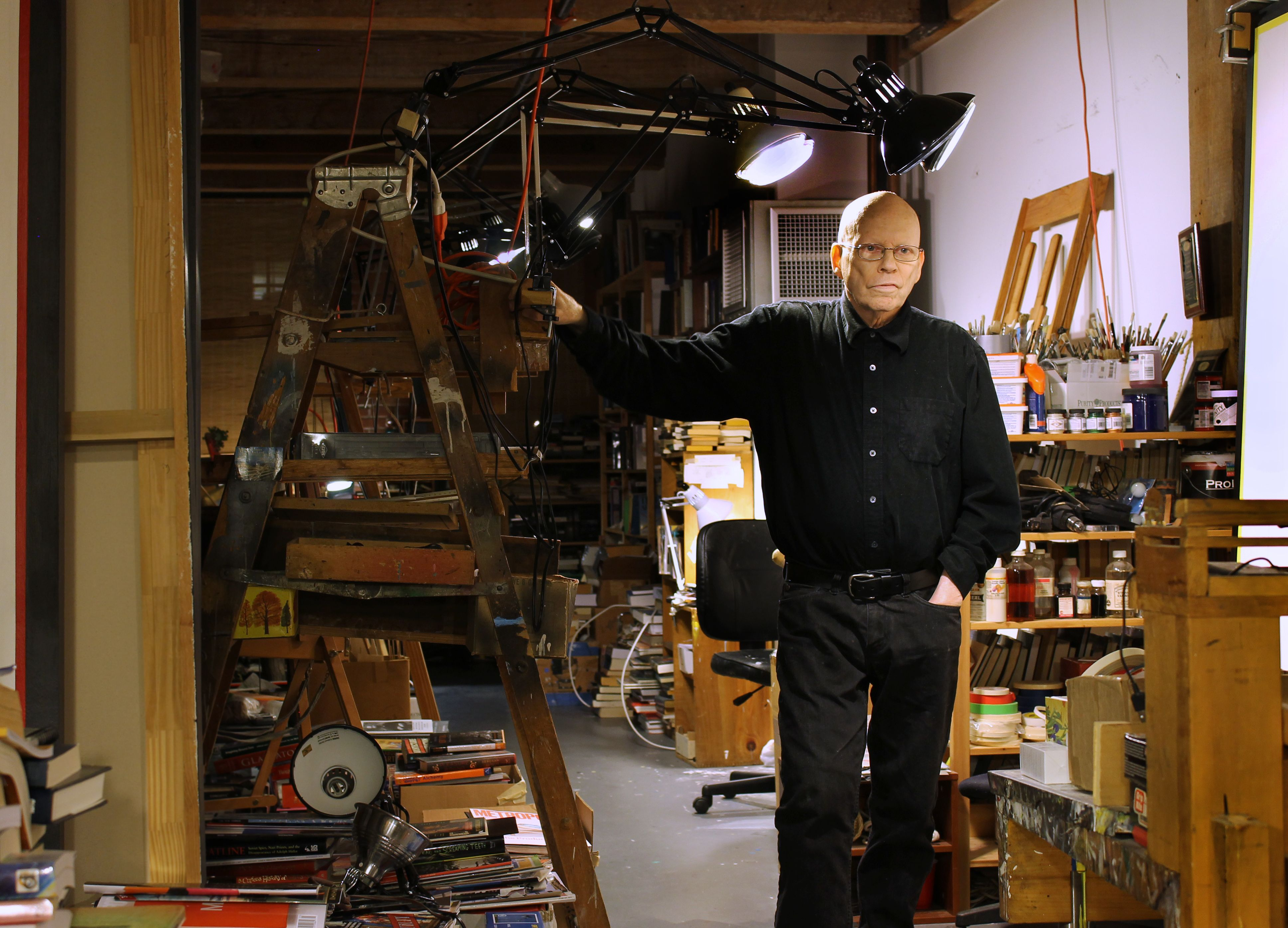 Paul Laffoley in his studio, January 2015.